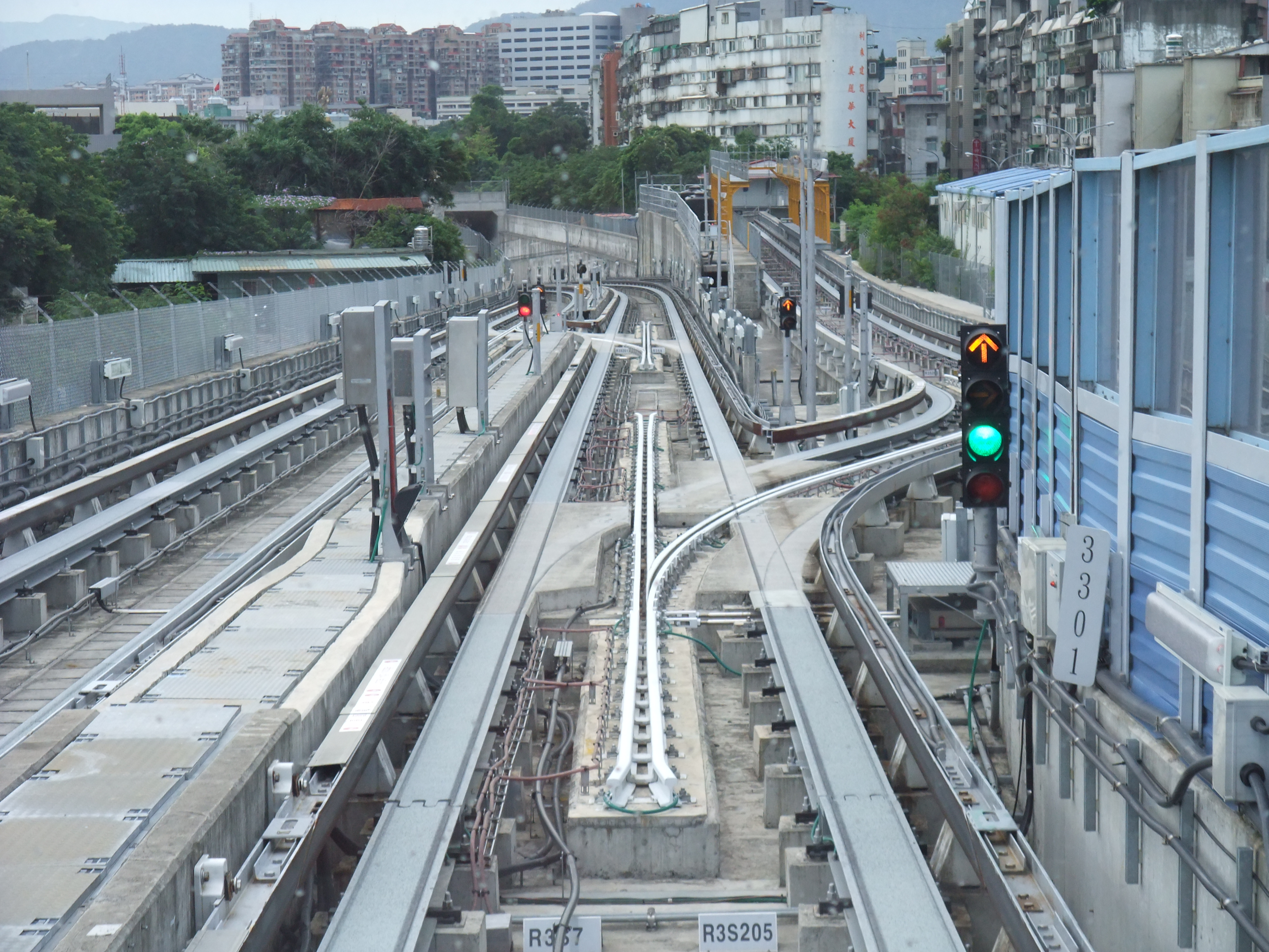 Metro Taipei Neihu Line rail point and CITYFLO650 signal device between ZhoneShan Jr. High School Station and SongShan Airport Station.